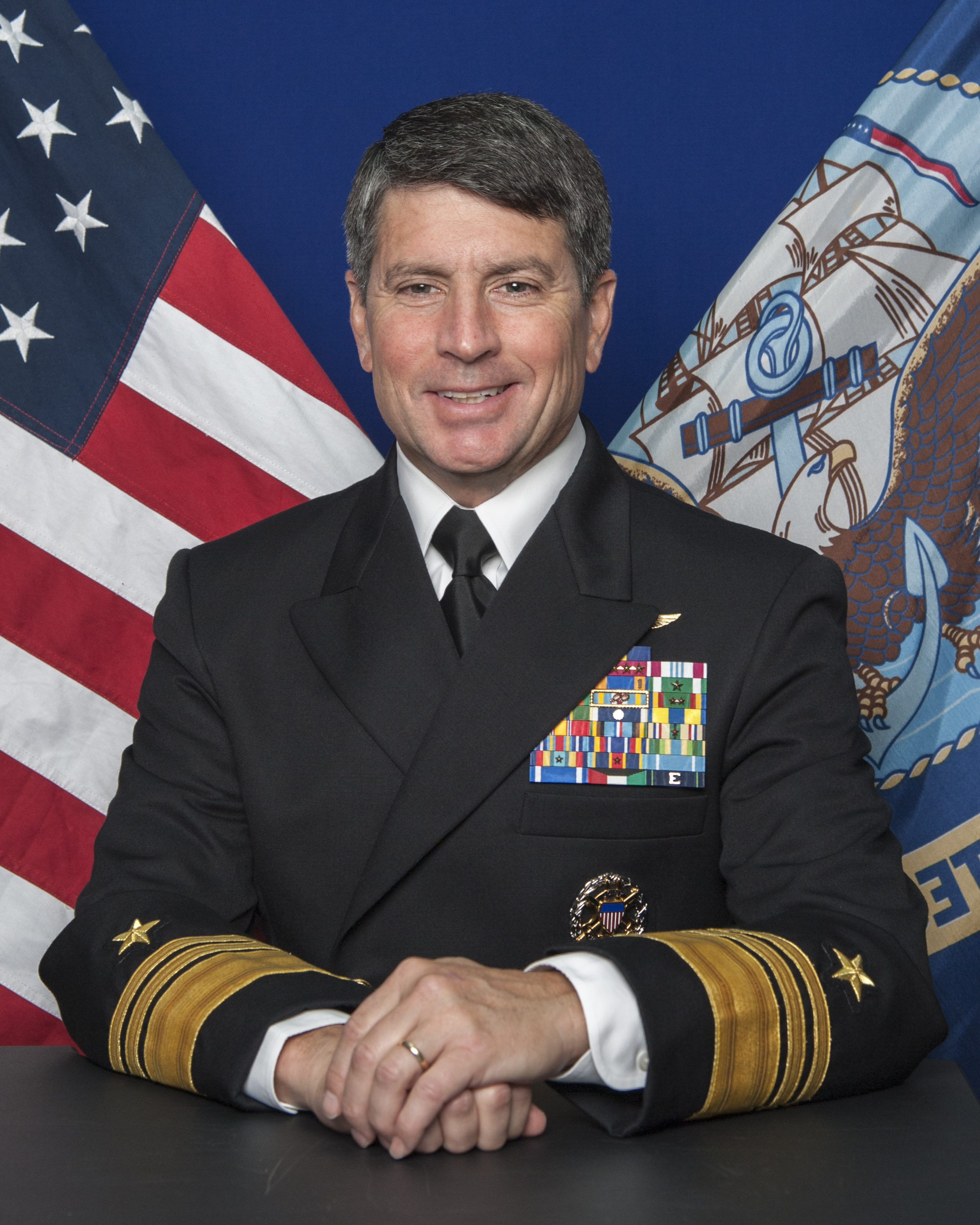 VICE ADMIRAL KEVIN M. "KID" DONEGAN COMMANDER U.S. NAVAL FORCES CENTRAL COMMAND COMMANDER U.S. 5TH FLEET COMMANDER COMBINED MARITIME FORCES